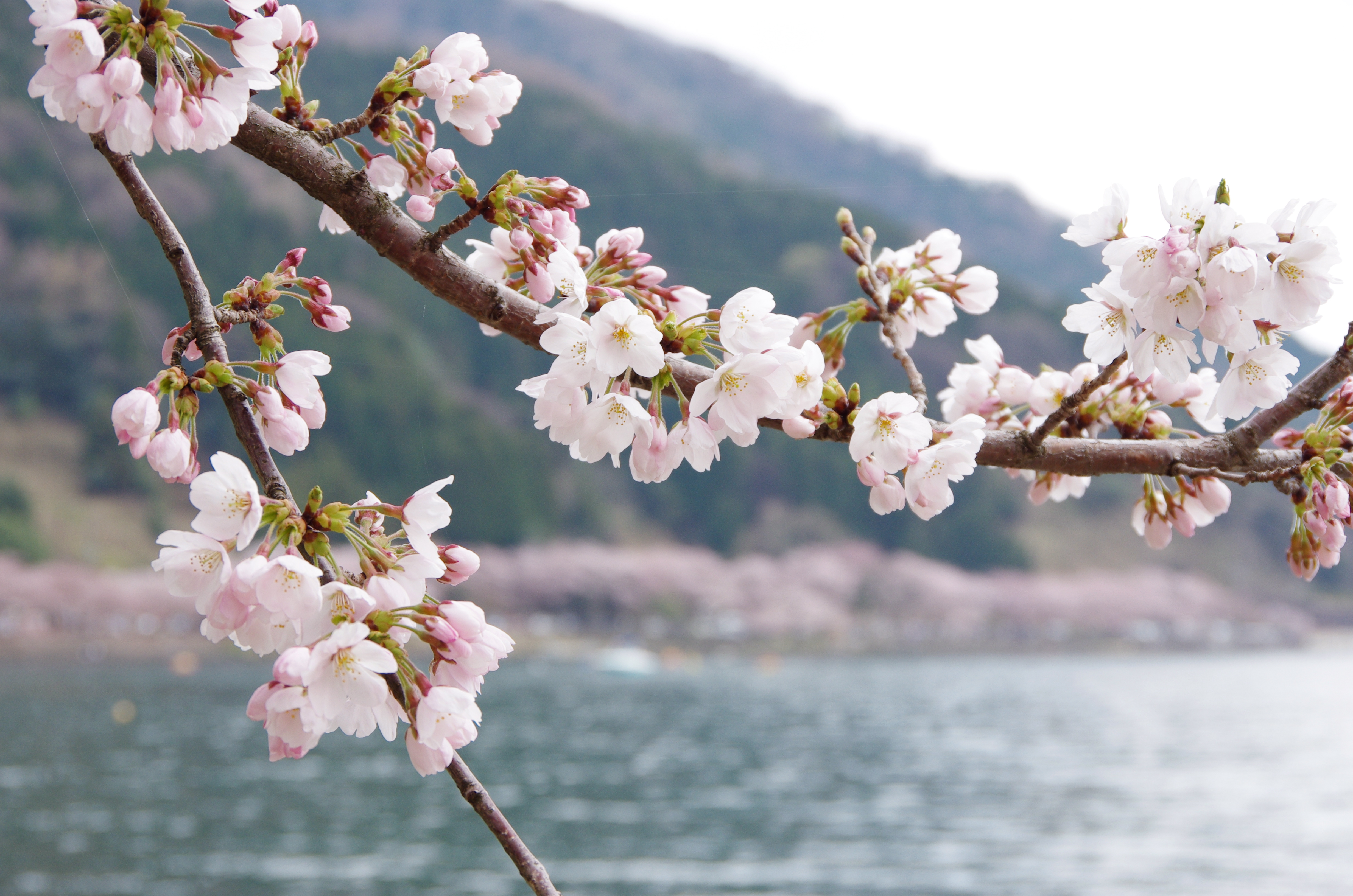 Lake Biwa, Japan